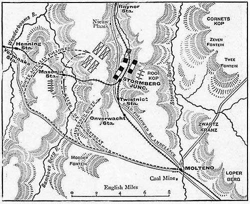 Map showing positions at the Battle of Stormberg, 10 December 1899. Boer positions : black and white boxes British positions : boxes with cross MAP OF THE BATTLE OF STORMBERG From: H. W. Wilson, With the Flag to Pretoria, 1902